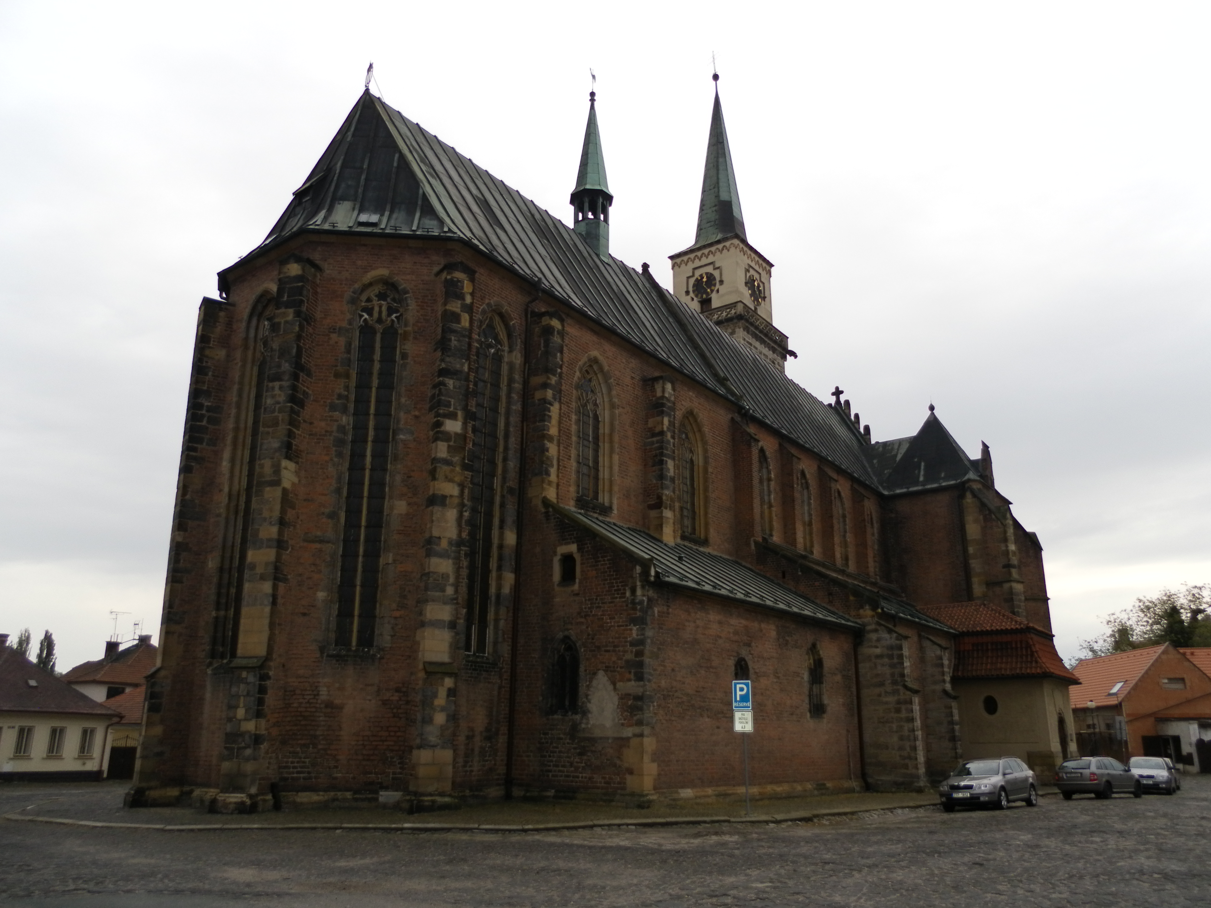 Presbytář severovýchodní pohled